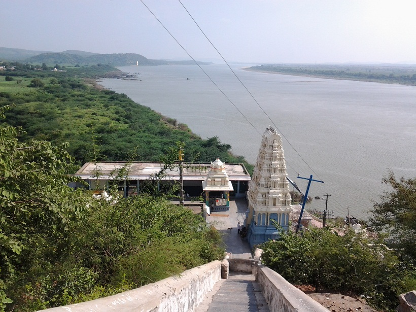 The temple Vedadri top view